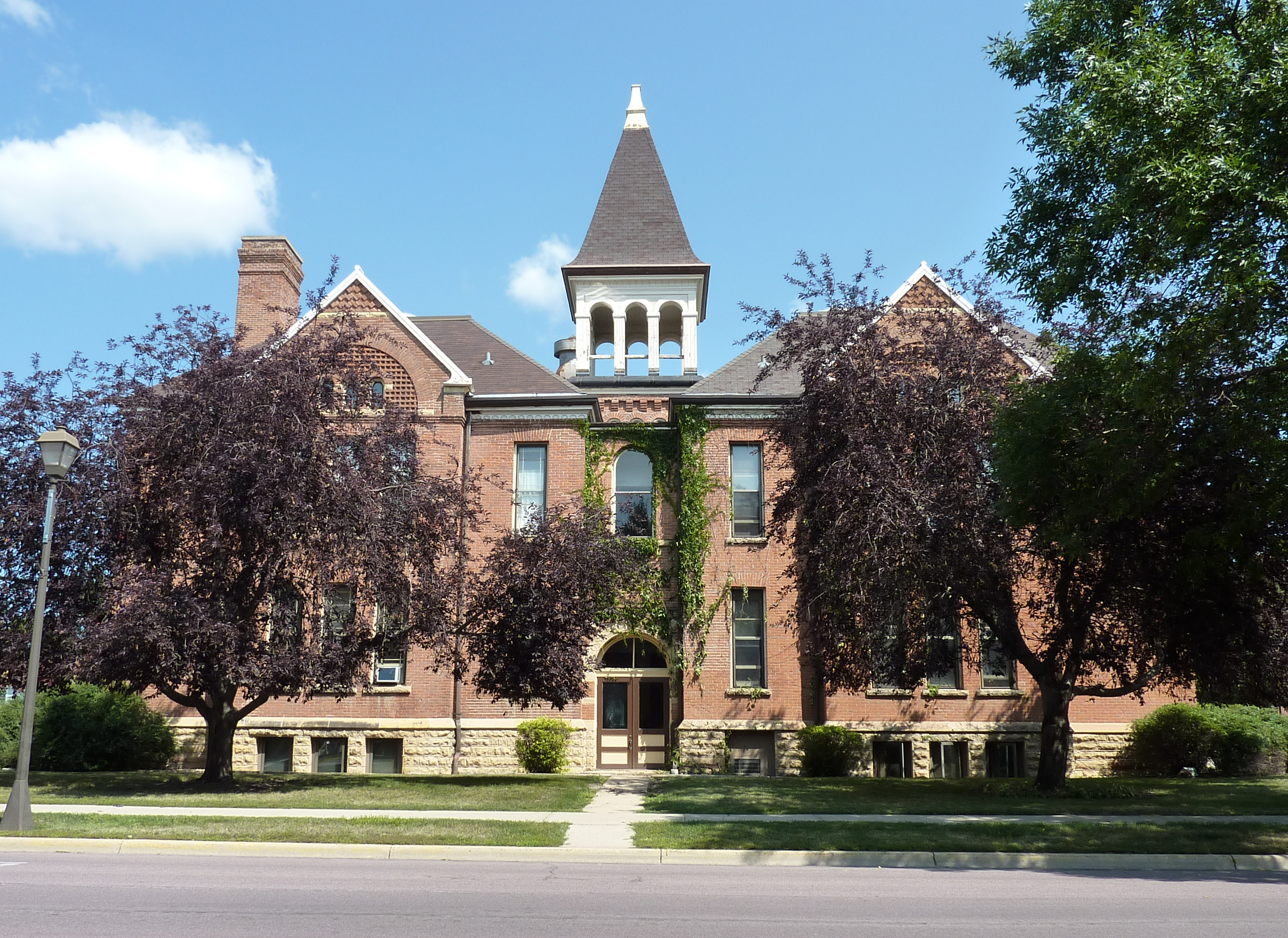 North Mankato Public School building, North Mankato, Minnesota, USA.